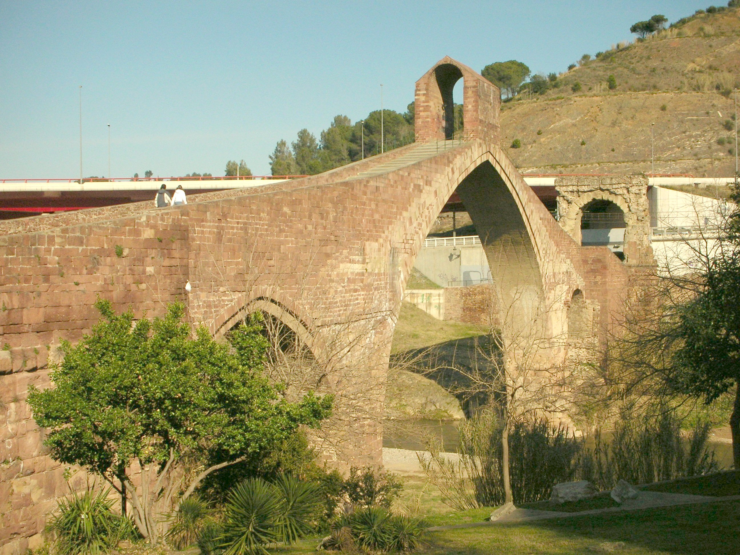 The medieval Devil's bridge from 1283 in Martorell, Catalonia, Spain. The gothic structure is part of the ancient Via Augusta and crosses the river Llobregat on the foundations of a former Roman bridge. The clear span of the central pointed arch is impressive 37.3 m. A Roman triumphal arch marks the eastern entrance. In 1939, the bridge was destroyed by retreating Republican troops during the Spanish civil war and rebuilt in 1963 in a form generally similar to the gothic structure.